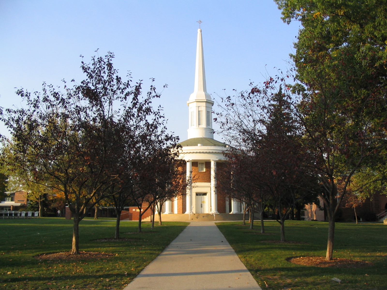 Dunning Memorial Chapel, Alma College, Alma, Michigan, USA